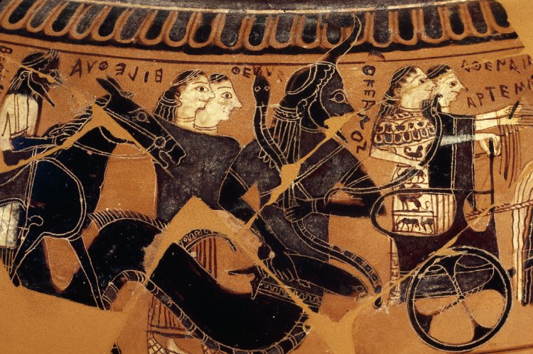 Athenian, black-figure Dinos by Sophilos, c. 590 BC (London, British Museum, signature 1971.11-1.1): Detail from a depiction of the Wedding of Peleus and Thetis, attended by several gods in chariots. Behind Athena and Artemis in the last chariot, Thetis' grandfather, the fish-tailed sea-god Okeanos, his wife Tethys, and Eileithyia, goddess of childbirth, follow the procession.